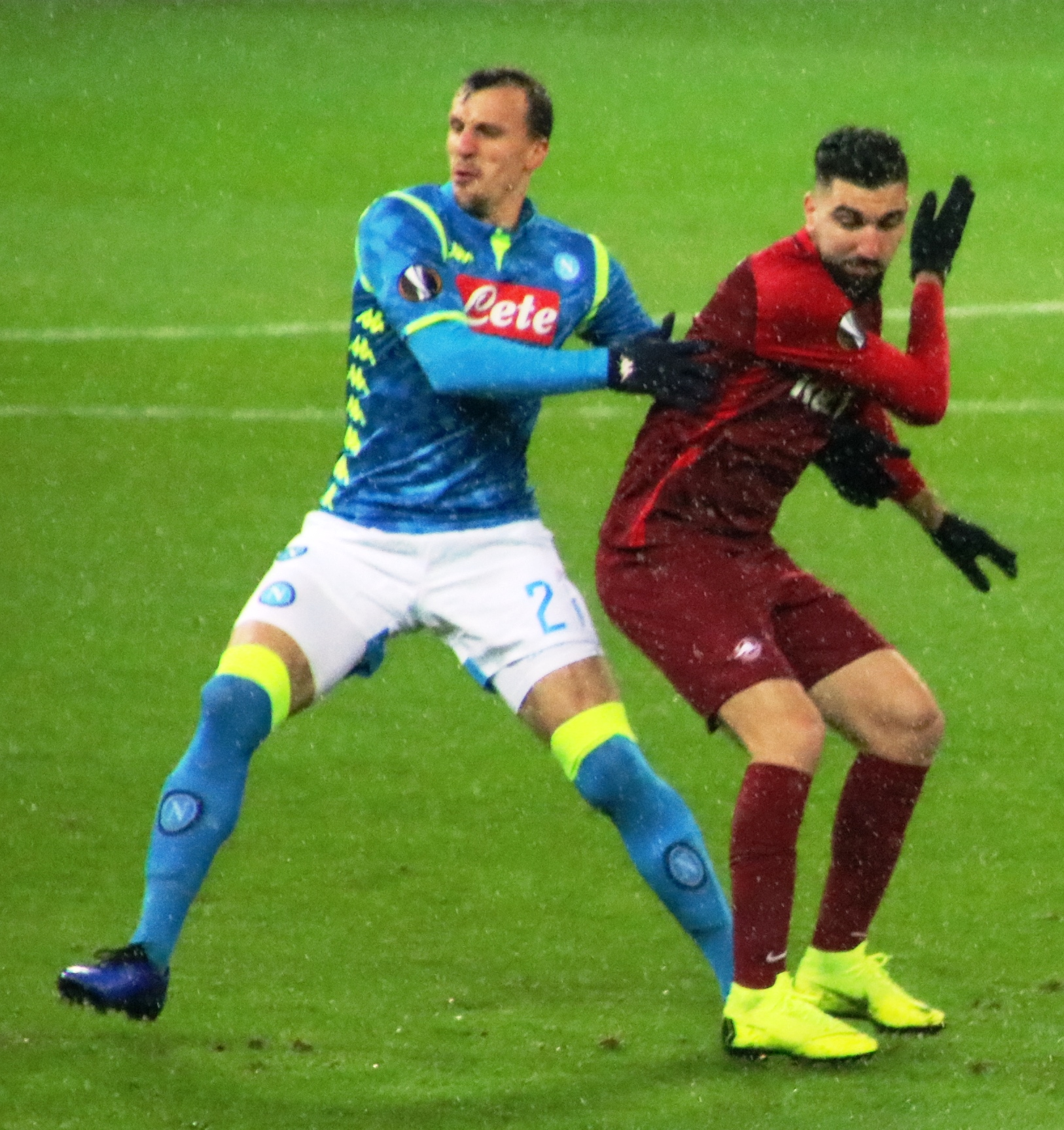 Euro League match round of 16 2nd leg